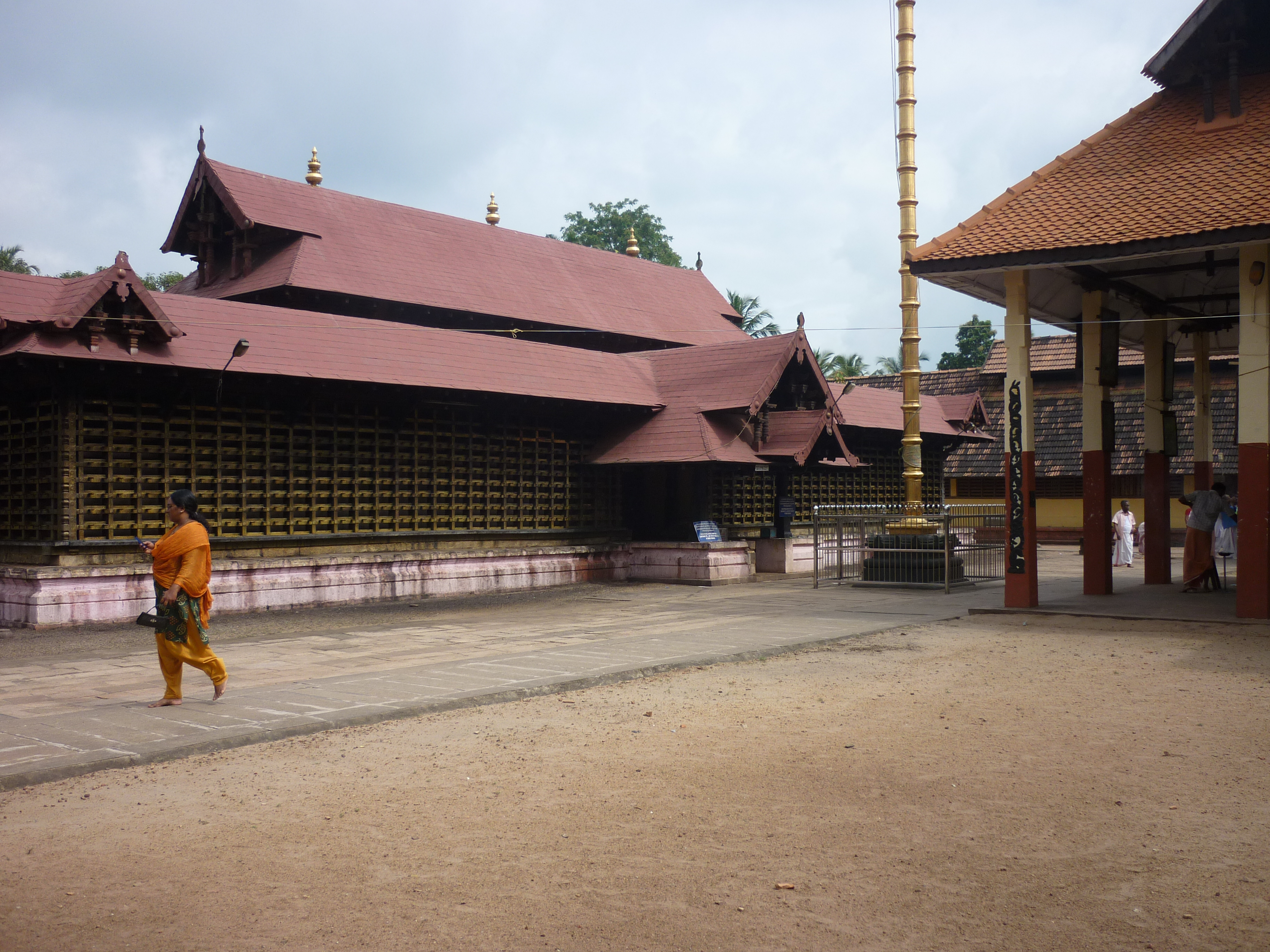 evoor temple